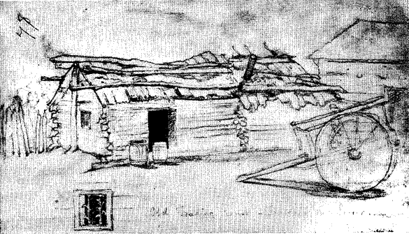 Trader's Cabin, Traverse des Sioux, Minnesota Territory